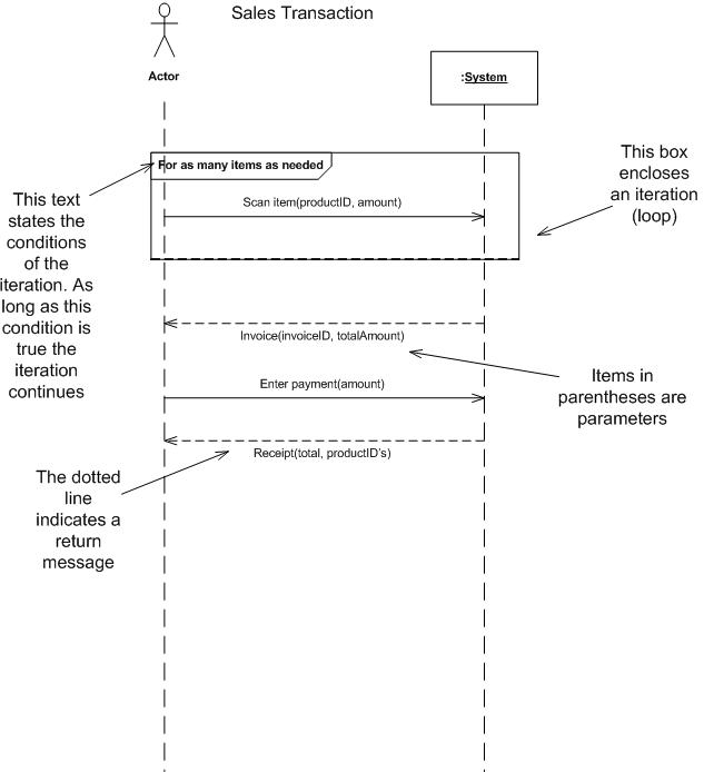 This is an example of a System Sequence Diagram